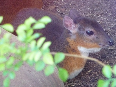 A Royal Antelope (Neotragus pygmaeus) at the San Diego Zoo.